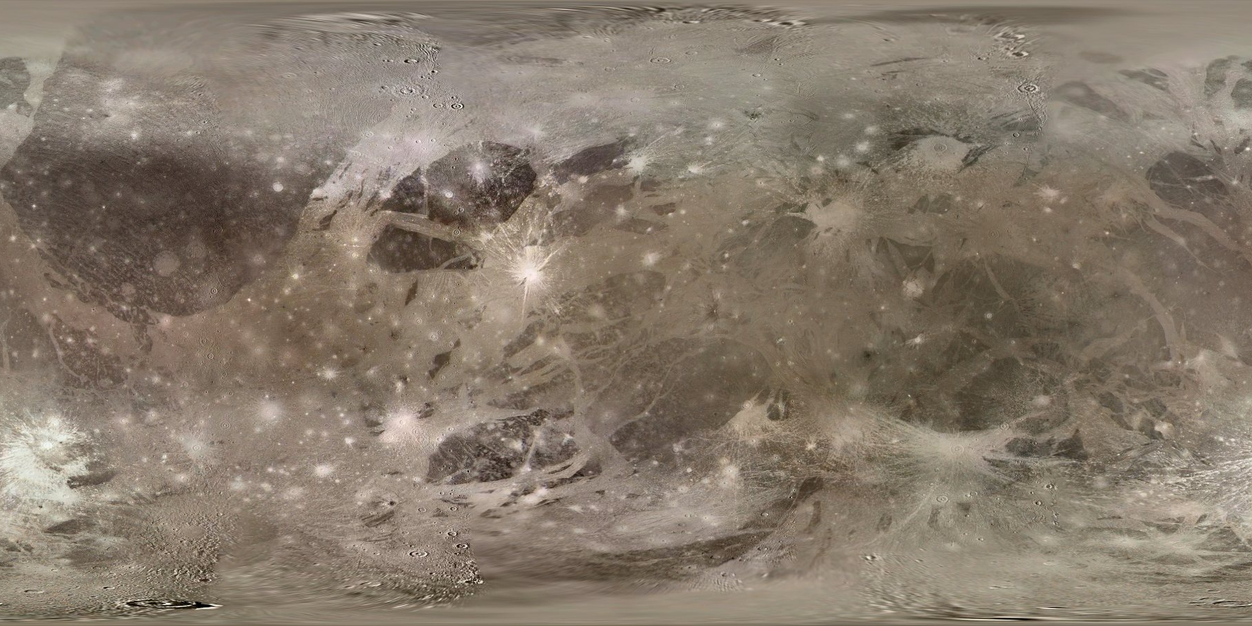 Derivative work of File:Map of Ganymede by Björn Jónsson.jpg, centered on latitude 0 and longitude 0.